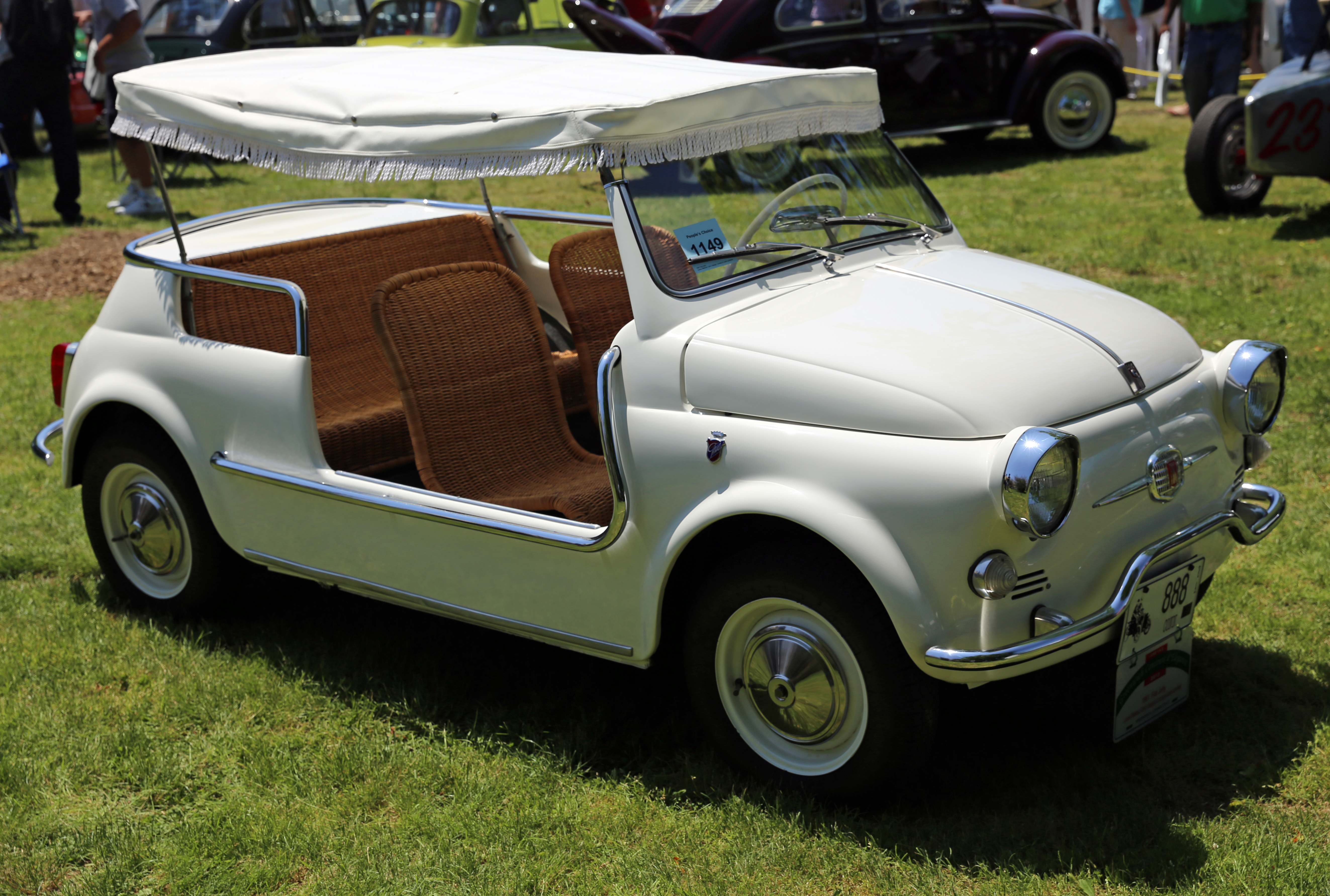 1961 Fiat 500 Jolly by Ghia at the 2013 Greenwich Concours d'Elegance.